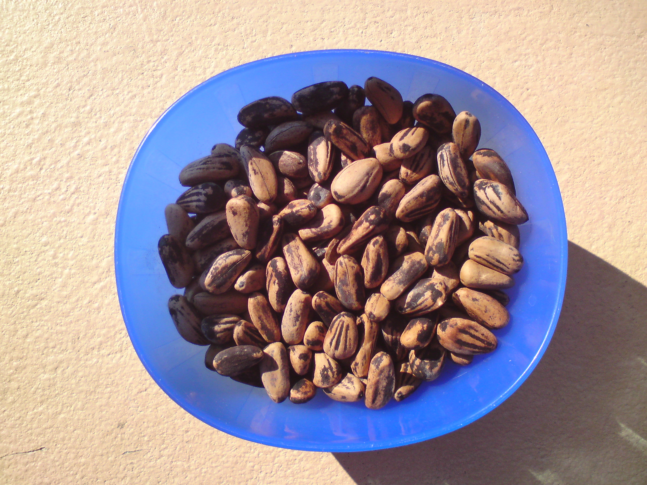 Pinus pinea pine seeds in bowl. The seeds have been rinsed to remove the black powder coat.